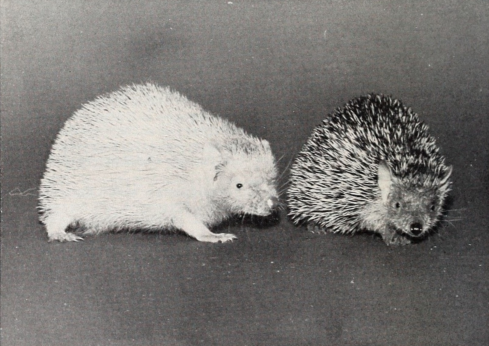 Colour variation in the Lesser Hedgehog tenrec (Echiops telfairi)